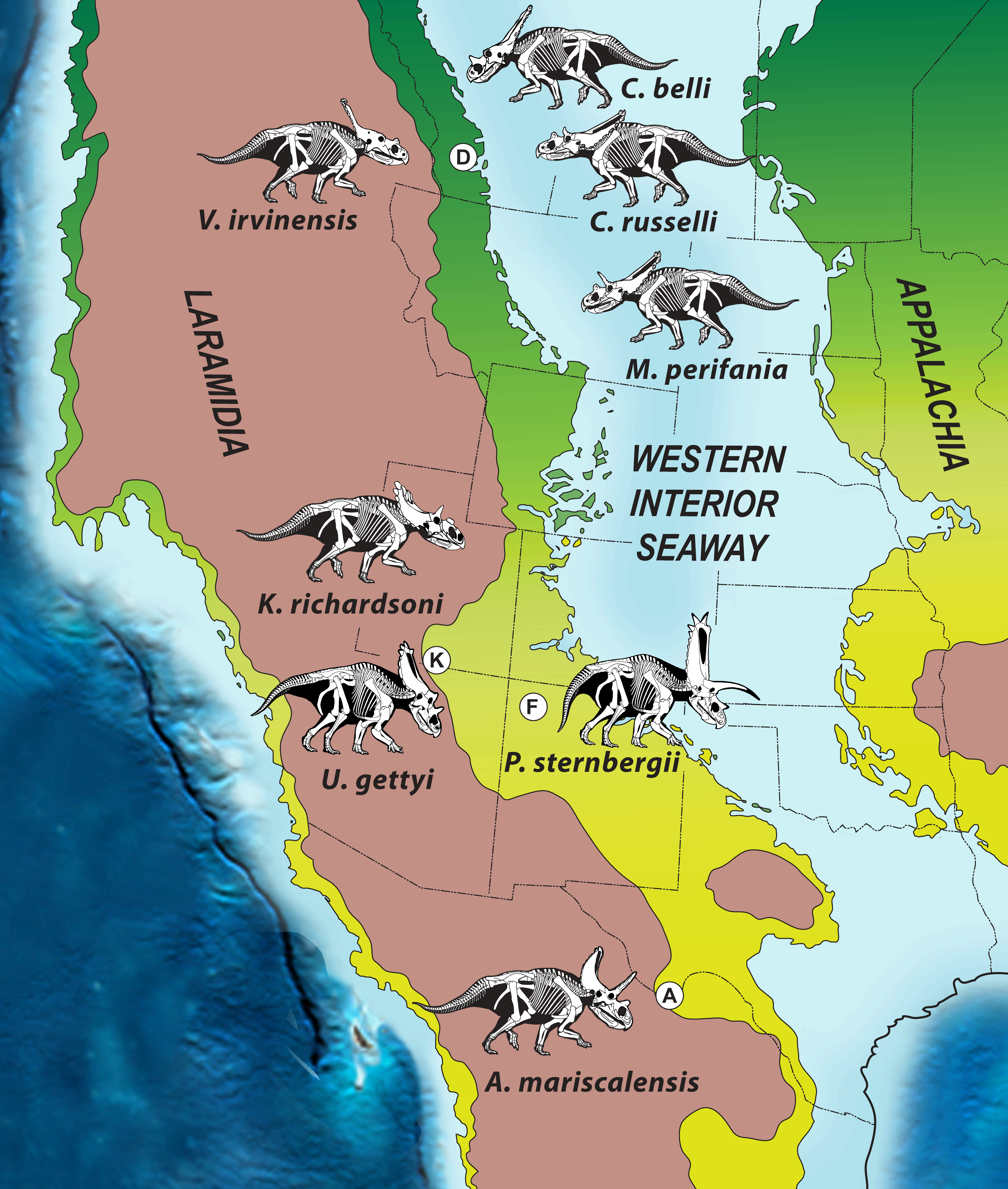 Paleogeography of North America during the Late Cretaceous (∼75 Ma), showing biogeographic distribution of chasmosaurine ceratopsid dinosaurs on the western landmass, Laramidia, during the late Campanian (∼76–73 Ma). Green represents coastal and alluvial plain habitats and reddish brown represents highlands. Present day boundaries of states and provinces are noted, as are the locations of key dinosaur-bearing geologic formations. Abbreviations: A, Aguja Formation, Texas; D, Dinosaur Park Formation, Alberta; F, Fruitland-Kirtland Formations; K, Kaiparowits Formation, Utah). Modified after Blakey [1].